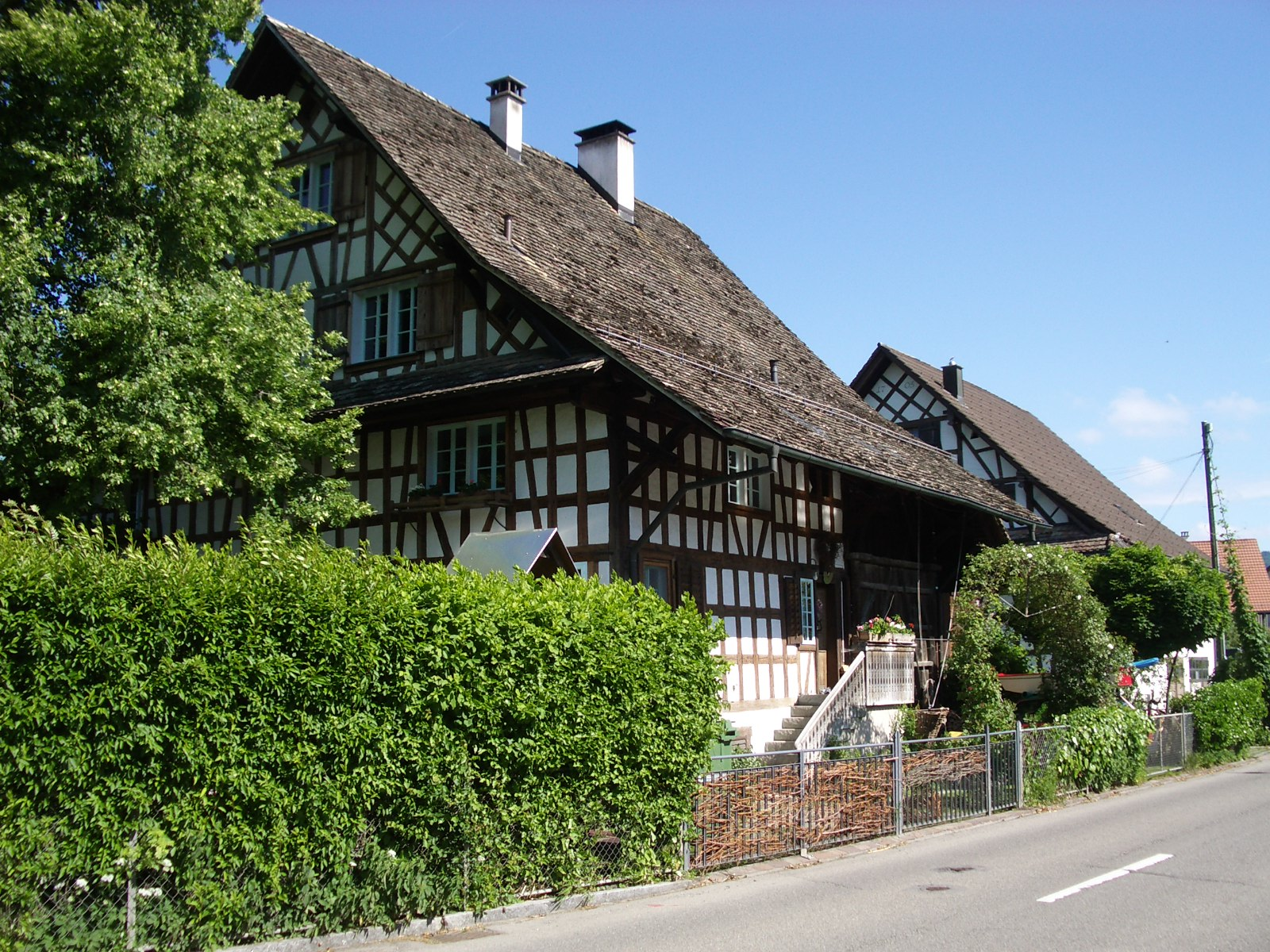 Rifferswil ZH, Switzerland